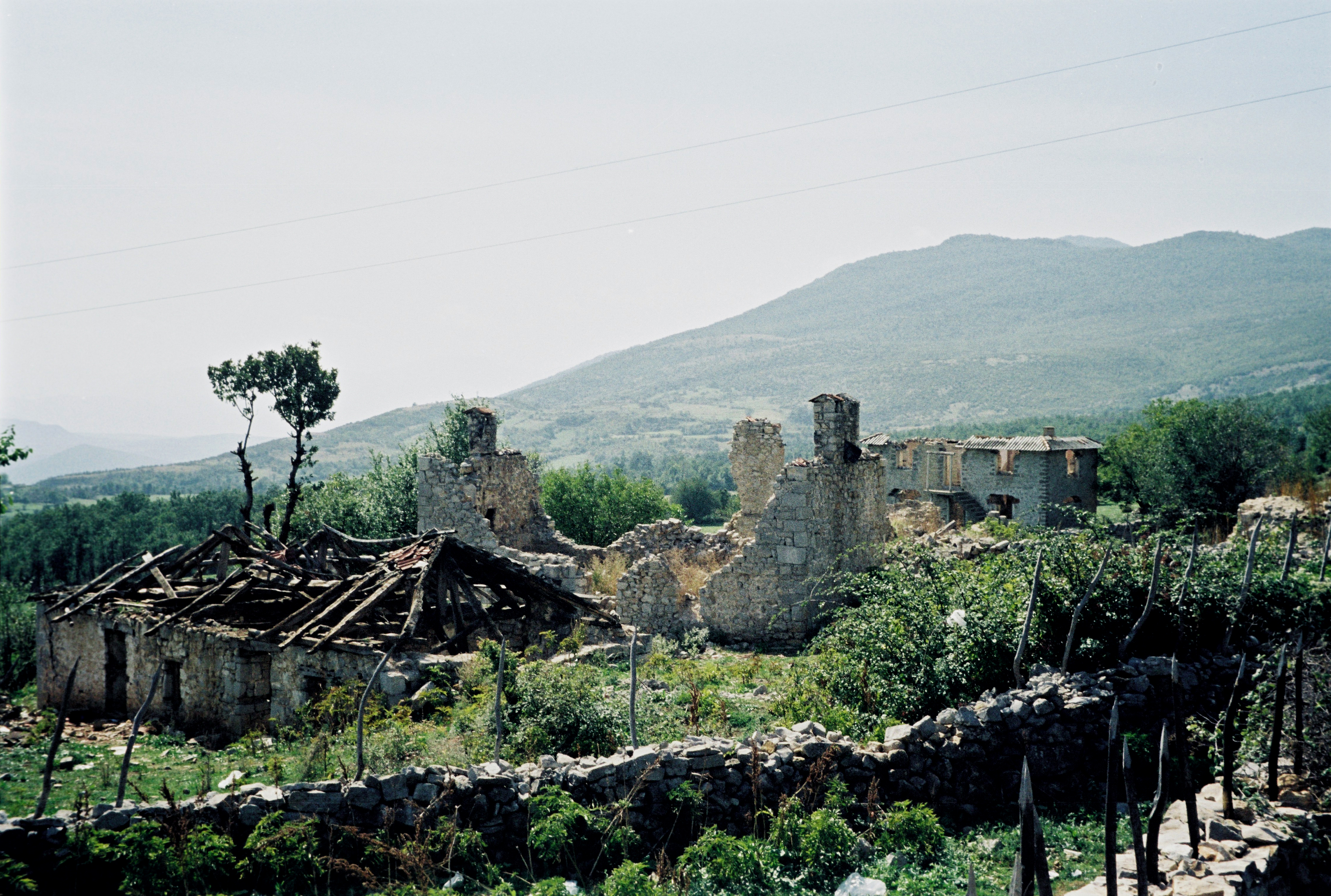 Ruins near Morina in the White Drin valley, at the border between Albania and Kosovo. A nearby village is called Planeja, the mountain to the right is called Pastrik. Taken in summer 2001 from a KFOR tank. These buildings may have been destroyed in the attack, mentioned in the following quote: FOREIGN & COMMONWEALTH OFFICE, LONDON, JUNE 1999 RESEARCH & ANALYTICAL PAPERS KOSOVO CHONOLOGY: 1997 TO THE END OF THE CONFLICT 23-24 May Yugoslav Army operations against villages of Morina, Smonica and Patoc Morina near Albanian border; attacks elsewhere also reported. Kosovo Chronology: From 1997 to the end of the conflict